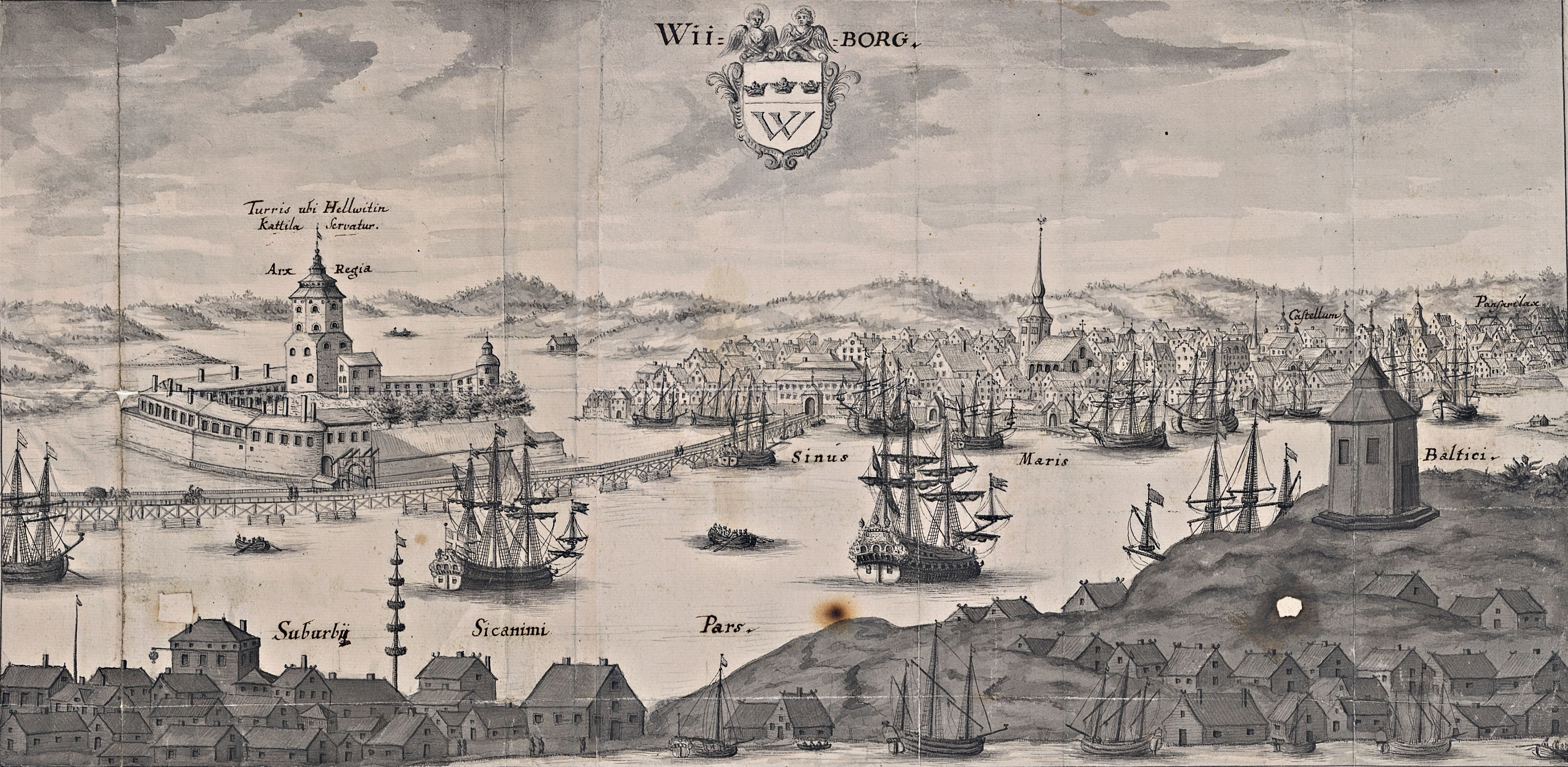 Wiiborg. J. v. d. Aveelen Sc. Holmiæ.1709